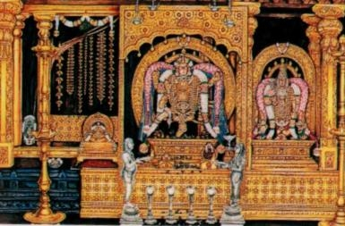 This picture of Lord Natarajar at Chidambaram has been kindly made available for display and distribution on the internet by Sri Samba Natesa Deekshithar, Managing Trustee and Poojashthanikar of the Chidambaram Sabhanayakar temple